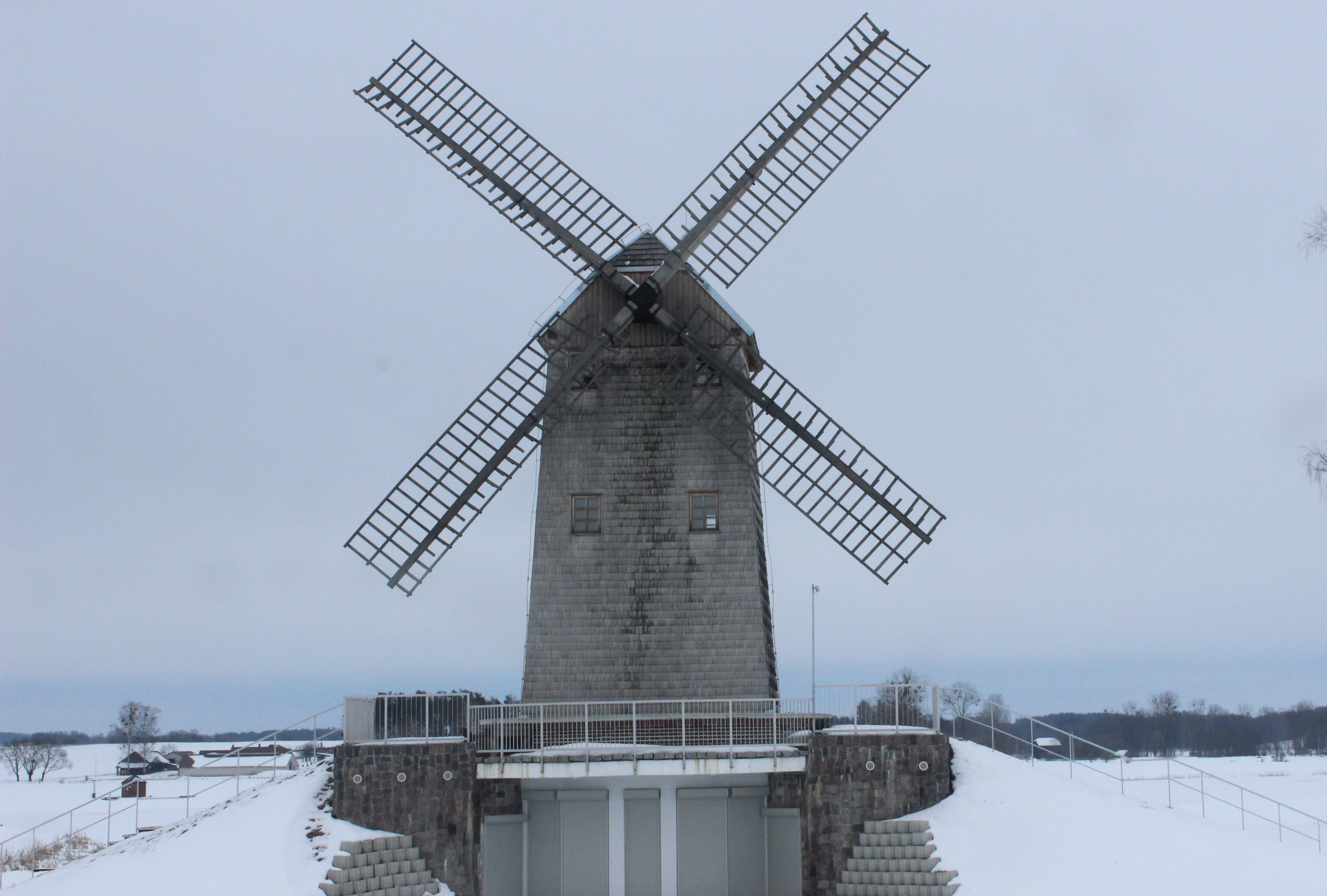 Mill, decorated PKS bus stop in Korycin, gmina Korycin, podlaskie, Poland